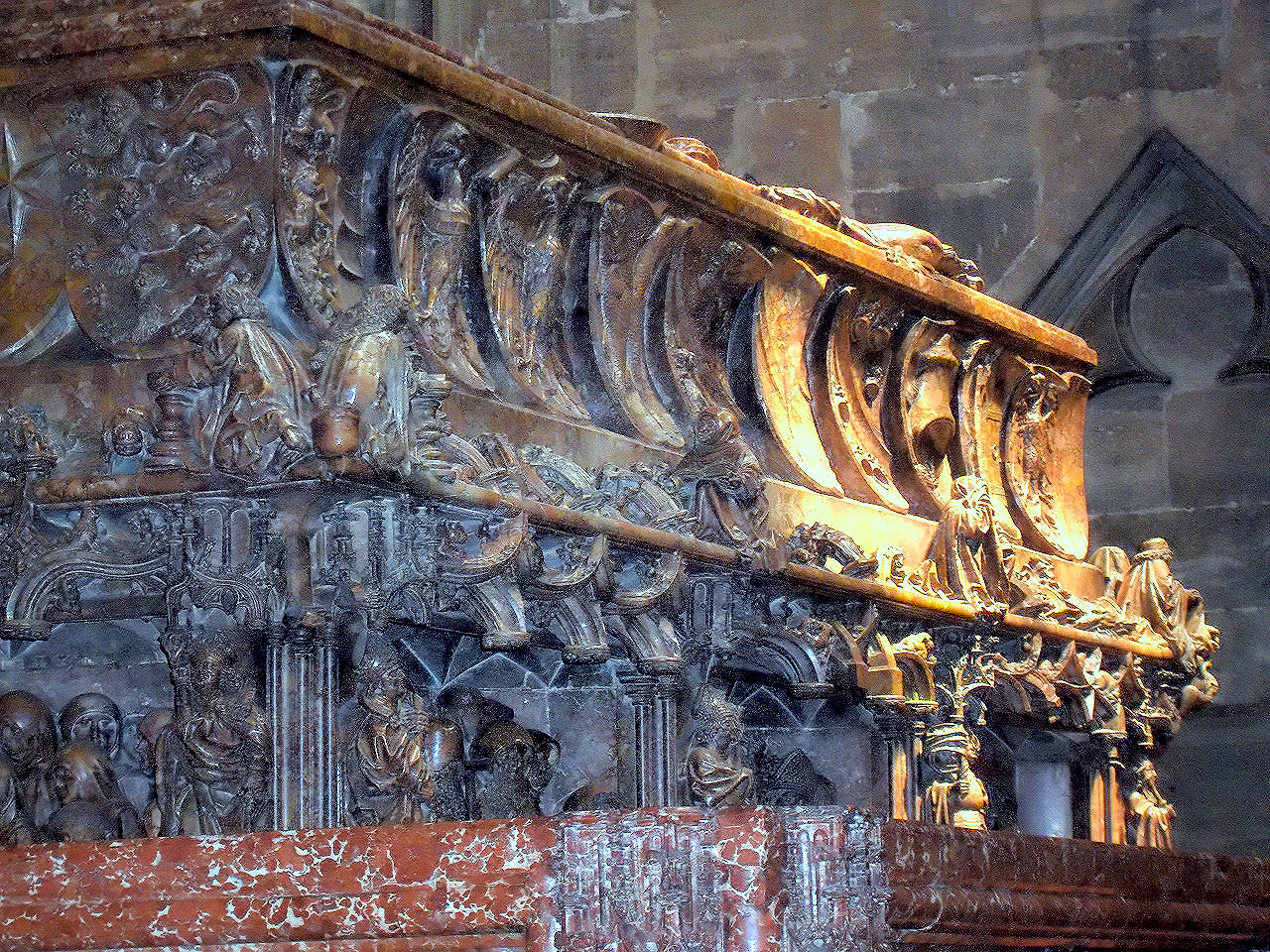 reworked version ofImage:Wien.Stephansdom62.jpg by User.MatthiasKabel